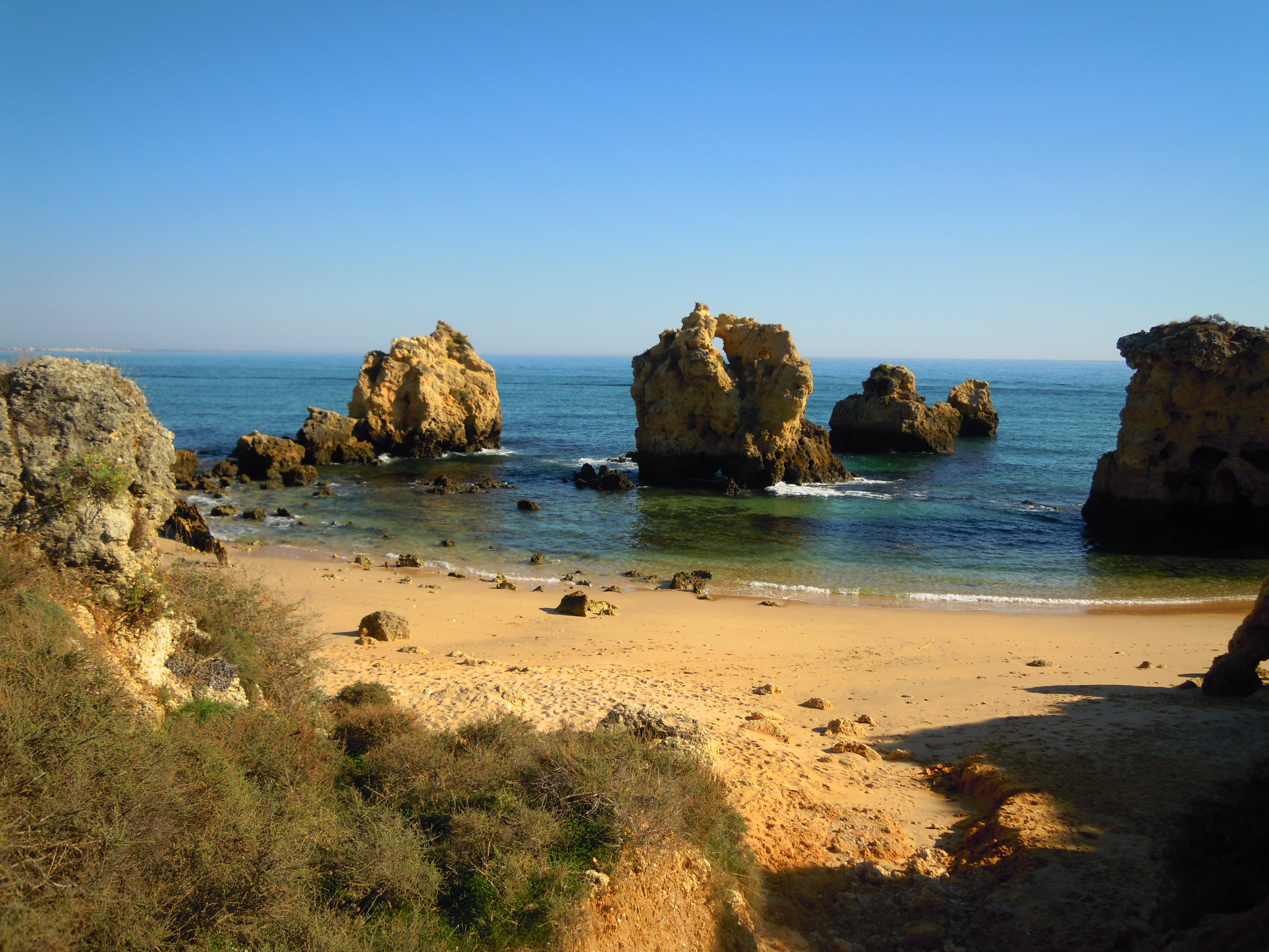 A Photograph of Praia dos Arrifes, Sesmarias village near Albufeira, Algarve, Portugal